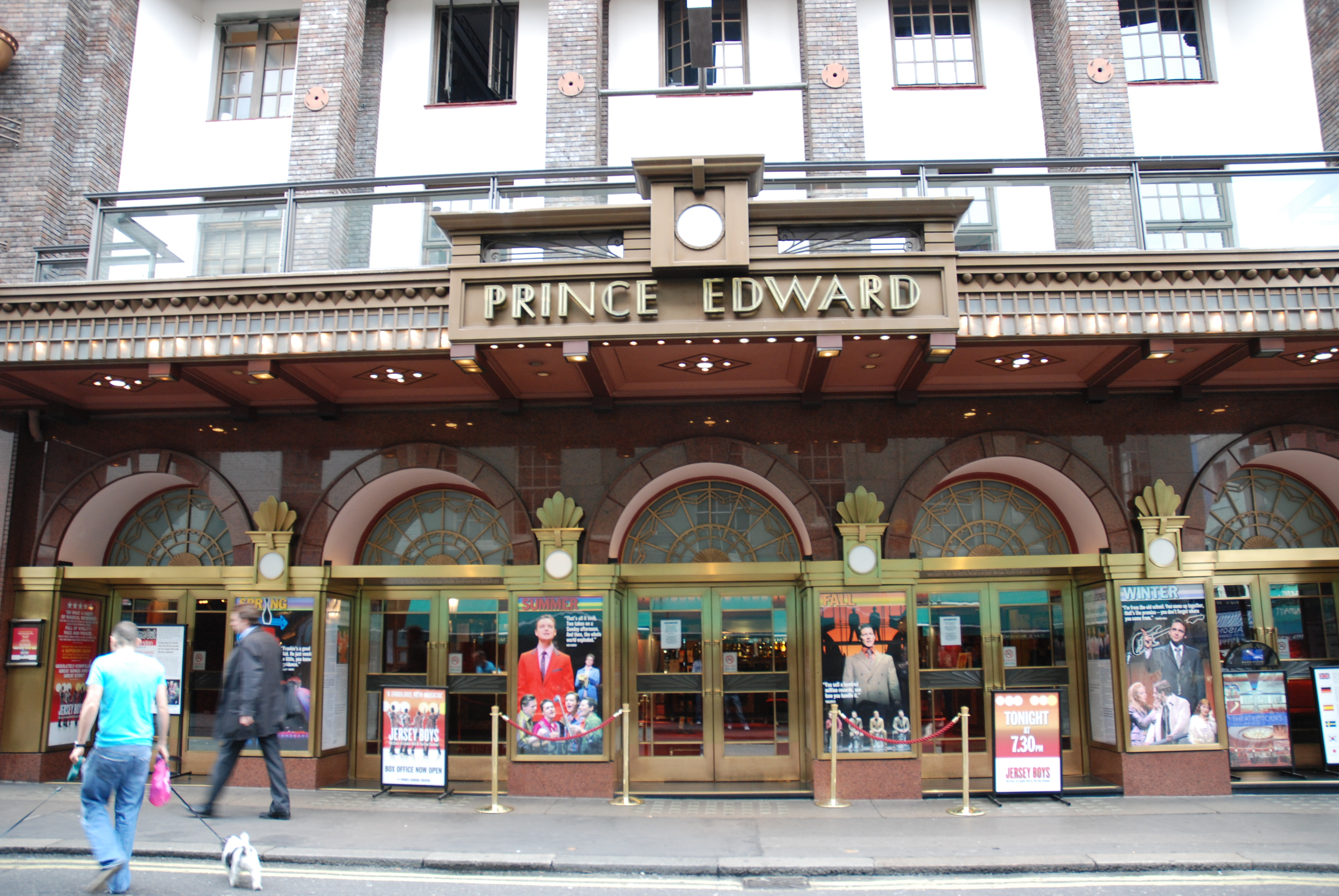 The Prince Edward Theatre in Westminster, London. October 2008